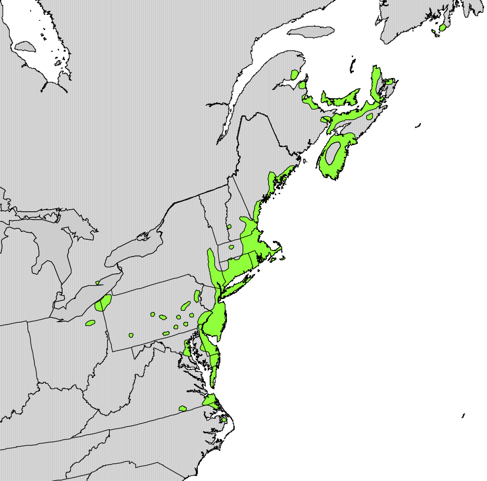 Range map of Myrica pensylvanica, now reclassified as Morella pensylvanica — Northern Bayberry.